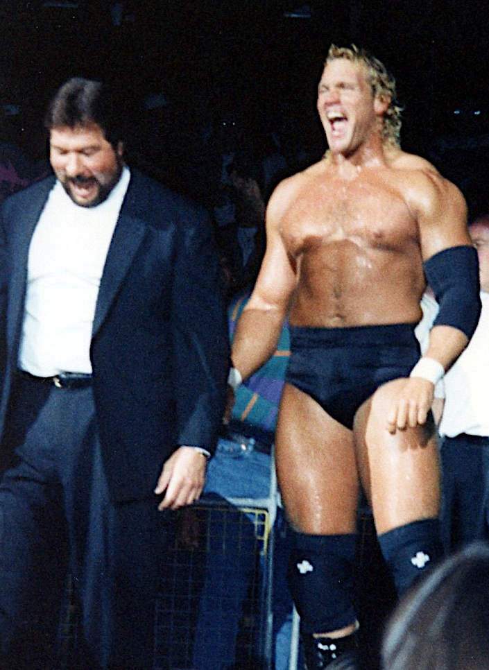 Ted DiBiase managing Sycho Sid in The Million Dollar Corporation